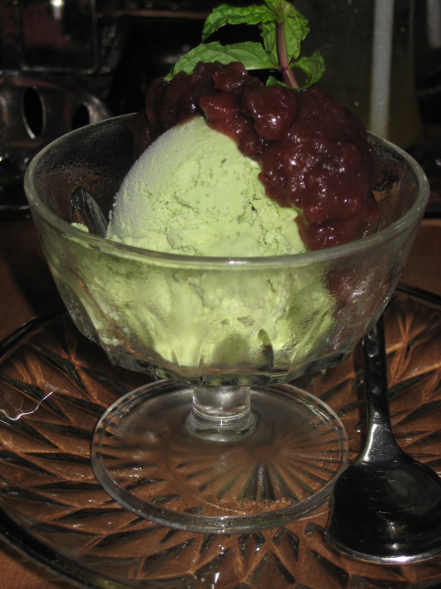 Green tea (matcha) ice-cream with red bean.